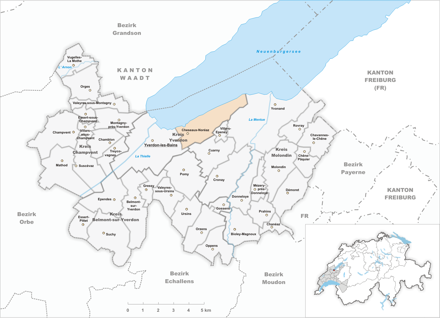 Municipality Cheseaux-Noréaz